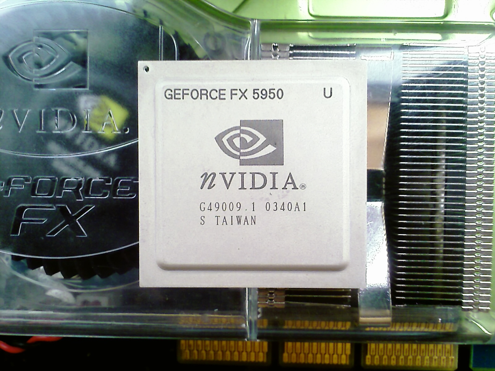 NVIDIA GeForce FX 5950 Ultra GPU